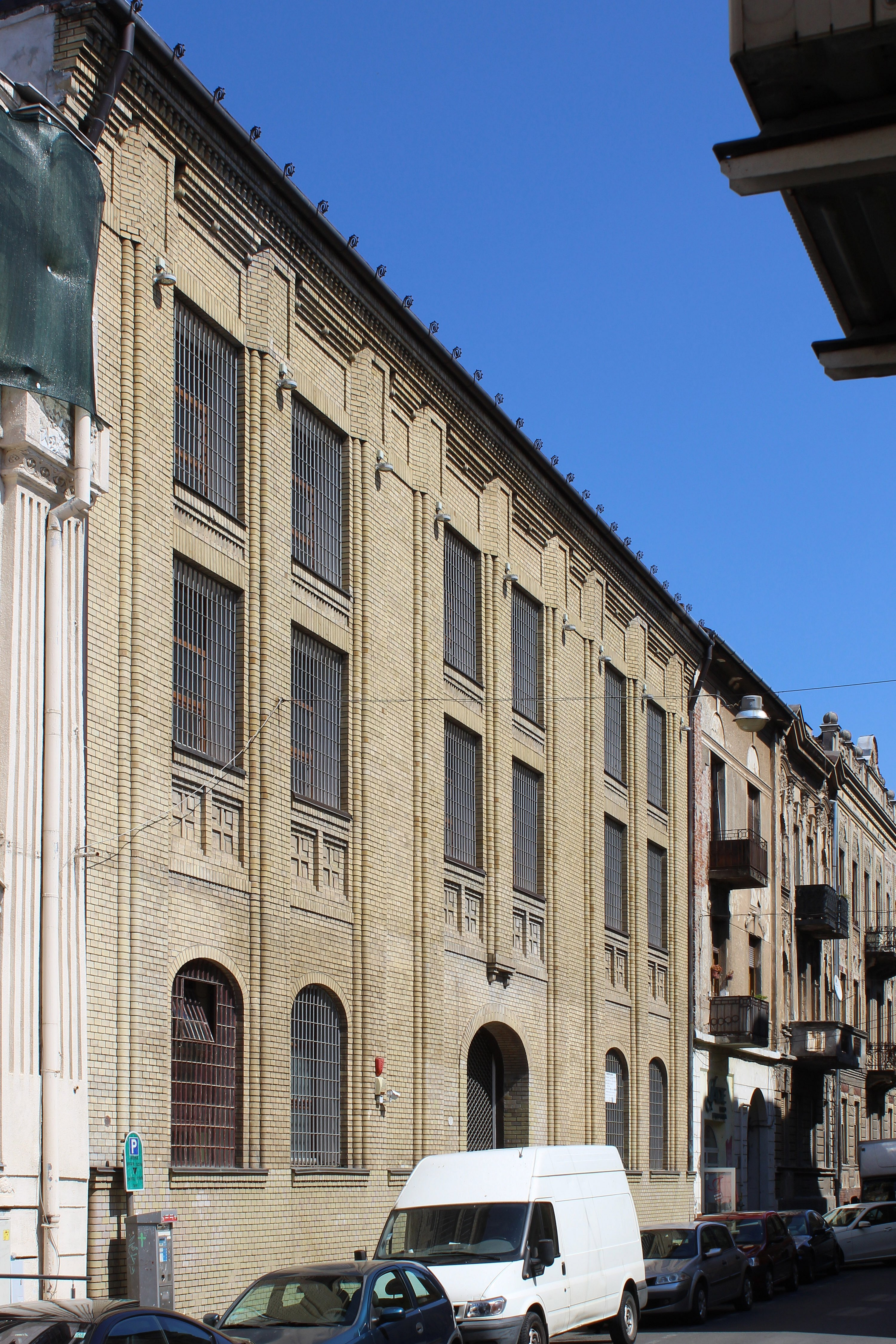 Andrenyi Warehouse, Unirii str. 7, Arad, Romania, built late of 19th century